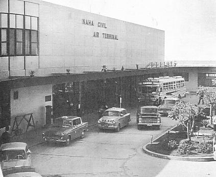 Naha Civil Air Terminal in 1960s